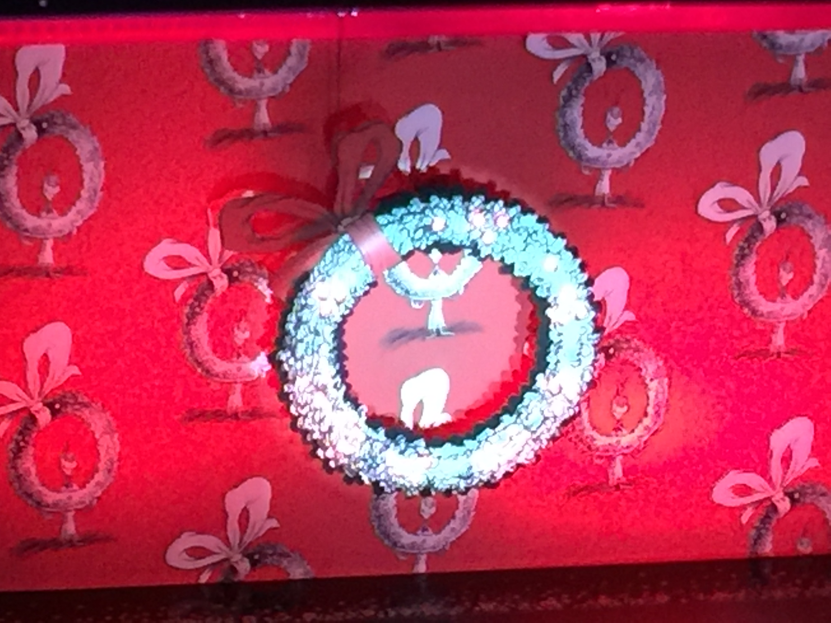 Broward Center for the Performing Arts (How the Grinch Stole Xmas)